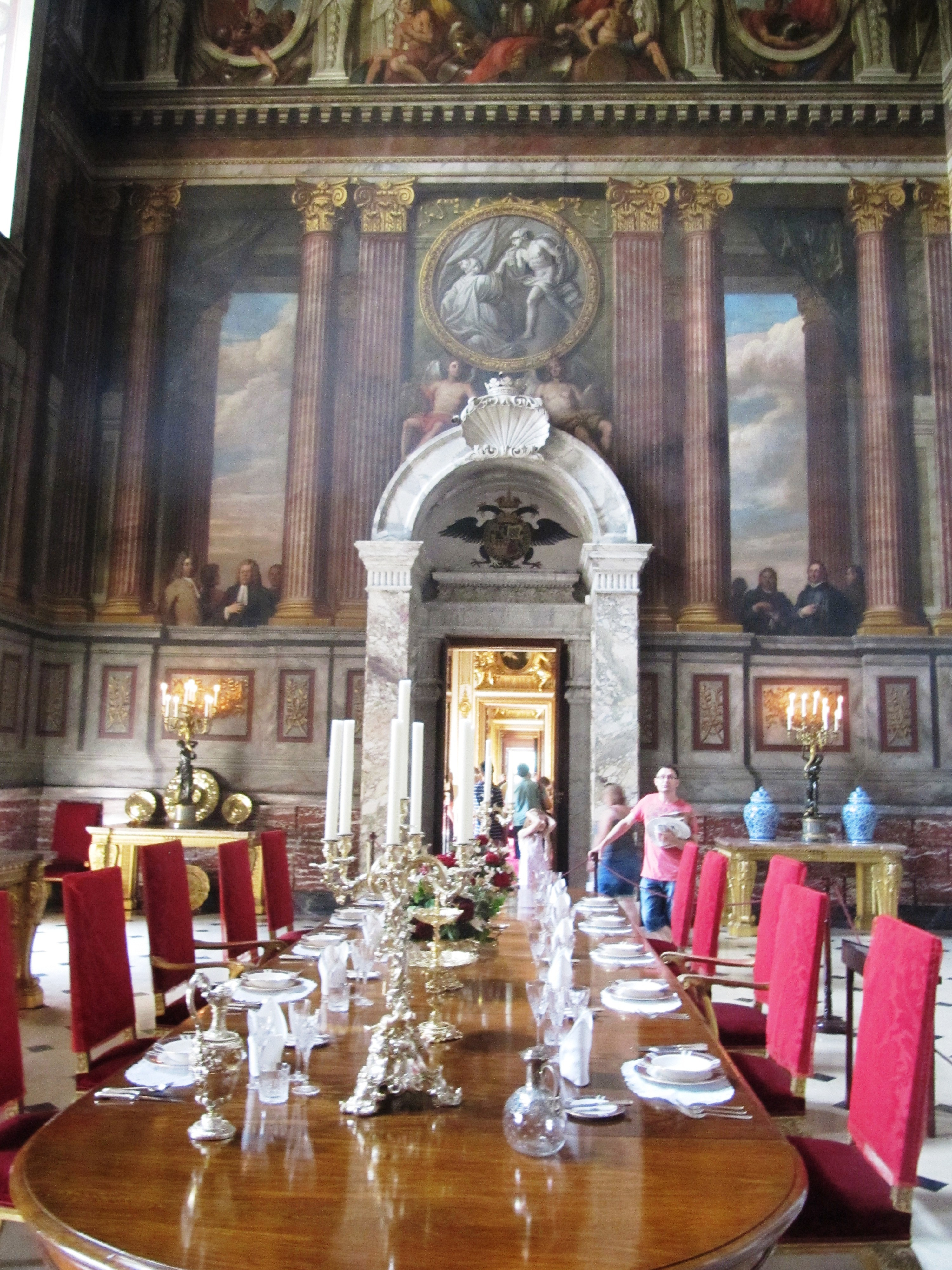 Blenheim Palace, interior